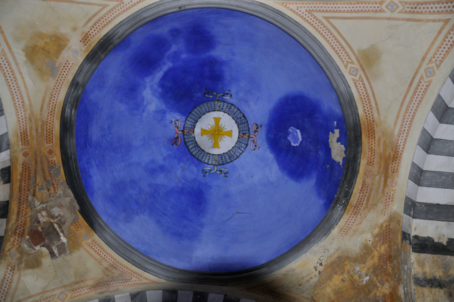 The vault of the Church of St. Biagio in Brento Sanico